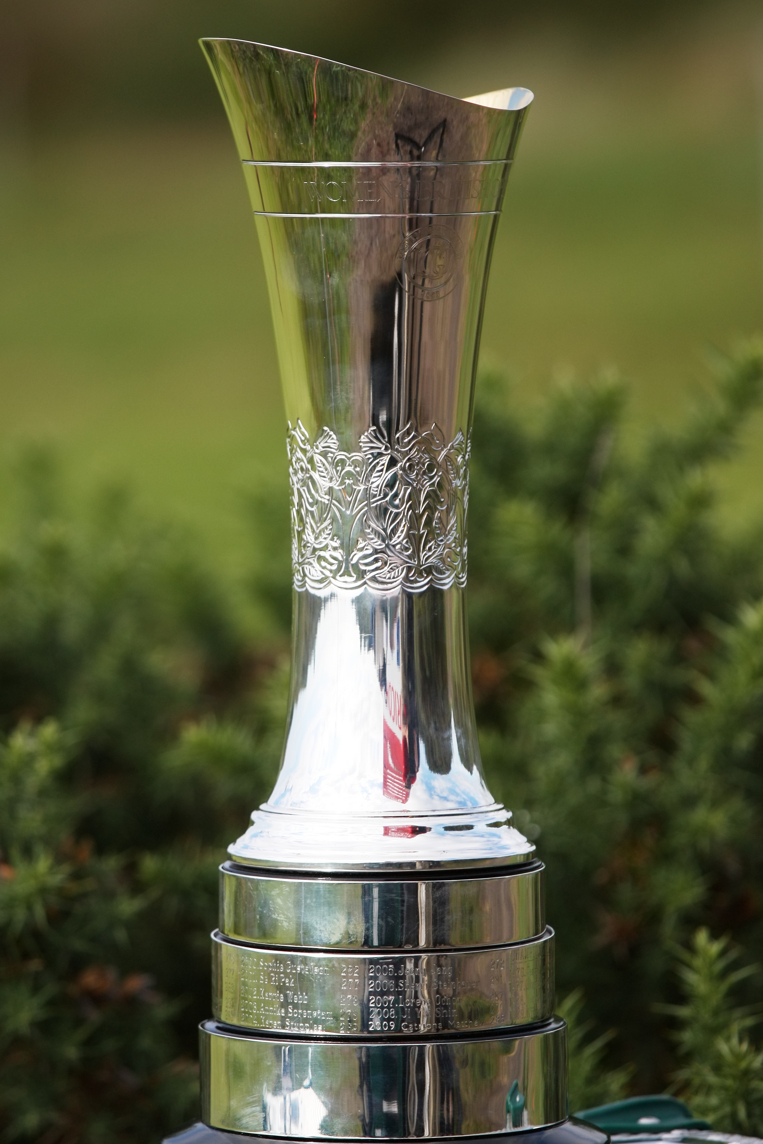 SOUTHPORT, UNITED KINGDOM - JULY 27: Women's British Open trophy shot during 2010 Ricoh Women's British Open held at Royal Birkdale on July 27, 2010 in Southport, England. (Photo by Wojciech Migda)